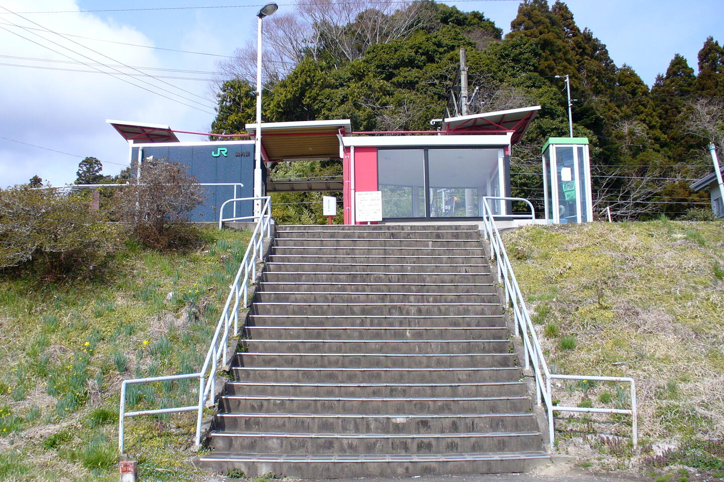 Joban Line Momouchi Station